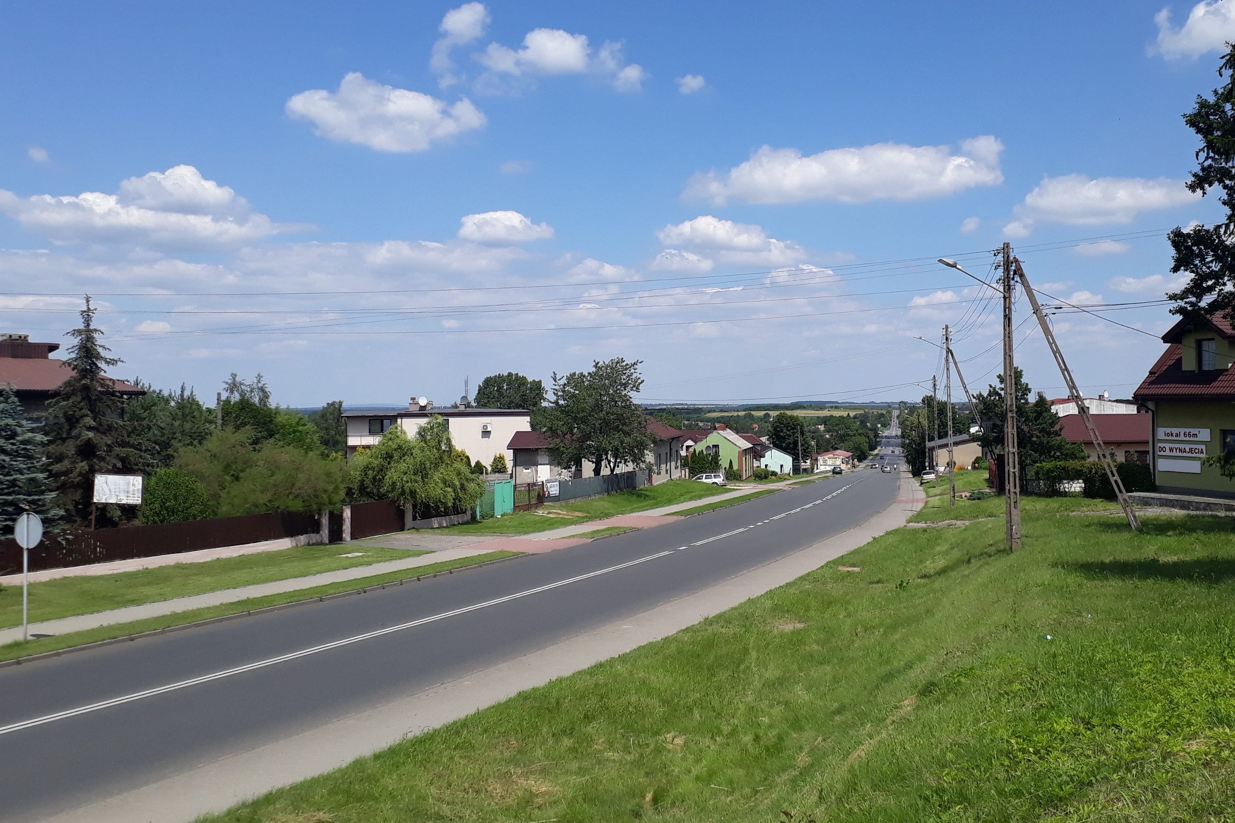 National Road 91 in Rędziny near Częstochowa (Wolności street)